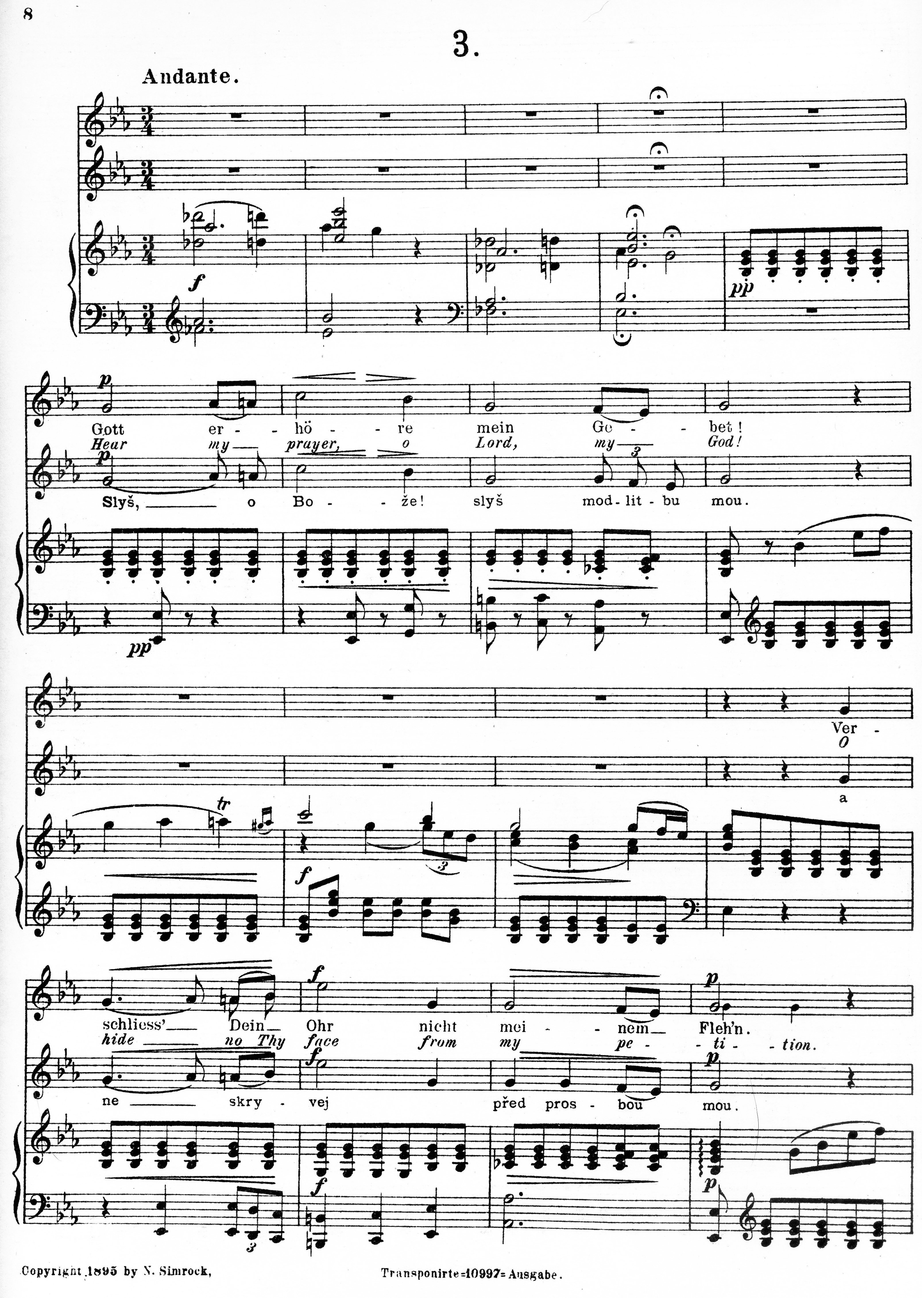 Antonín Dvořák's Biblícké Písně (Biblical Songs) Op. 99 (1884). Book 1 containing Songs 1-5. While Dvorak later orchestrated the work, this the complete original piano-and-voice version. While the massacre of the original music to fit the German and English is appalling, it does contain the original Czech, and the original music for the Czech. The German and English should probably be considered only as a translation. This is the first five songs (out of ten), the other five are printed in a second volume I have not yet tracked down. I haven't been able to find Book 2, unfortunately.